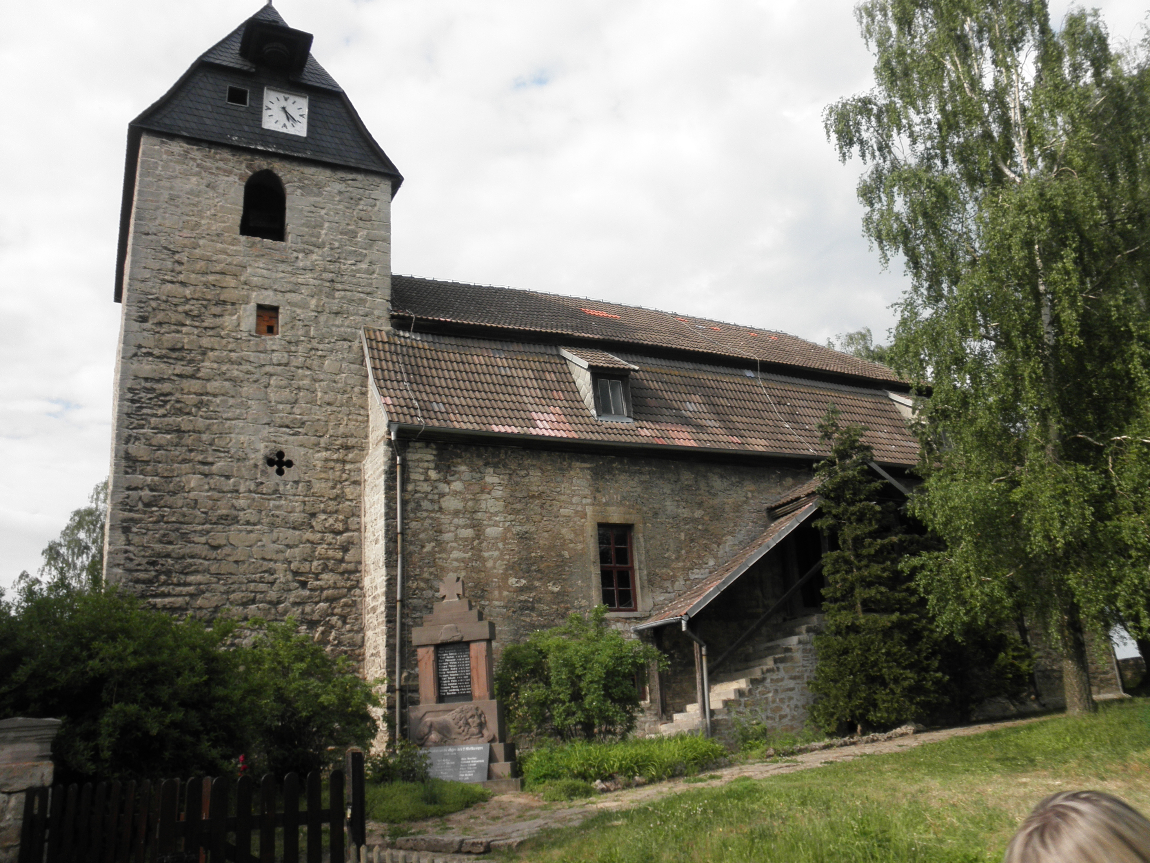 Church in Holzengel (Großenehrich) in Thuringia